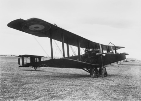 A Handley-Page 0/400 aircraft of No. 1 Squadron, Australian Flying Corps at Haifa, North Palestine, Ottoman Empire, in 1918.